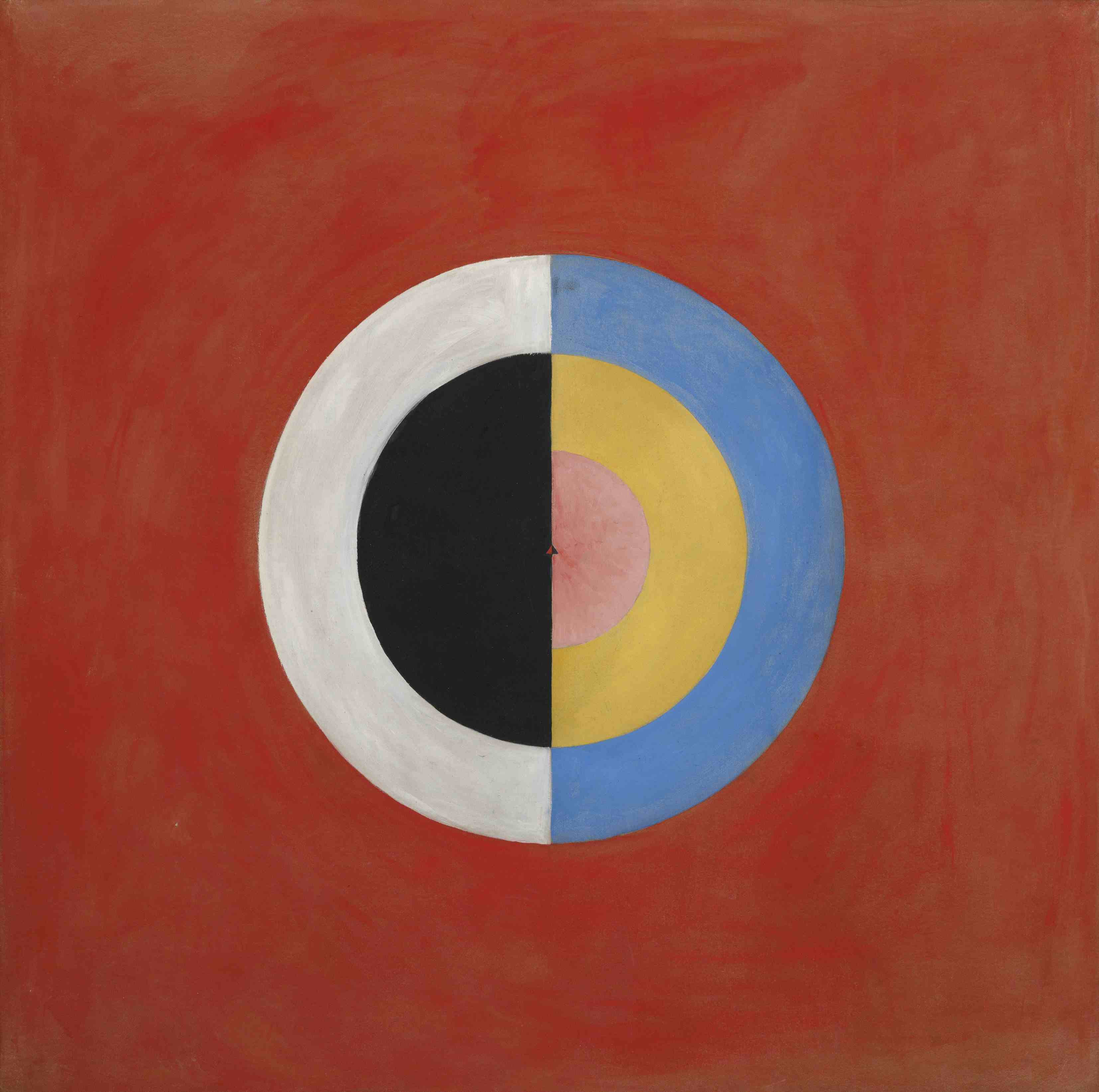 Hilma af Klint "Svanen, nr 17, grupp IX/SUW, serie SUW/UW", 1915. Stiftelsen Hilma af Klints Verk. Photo: Moderna Museet/Albin Dahlström.